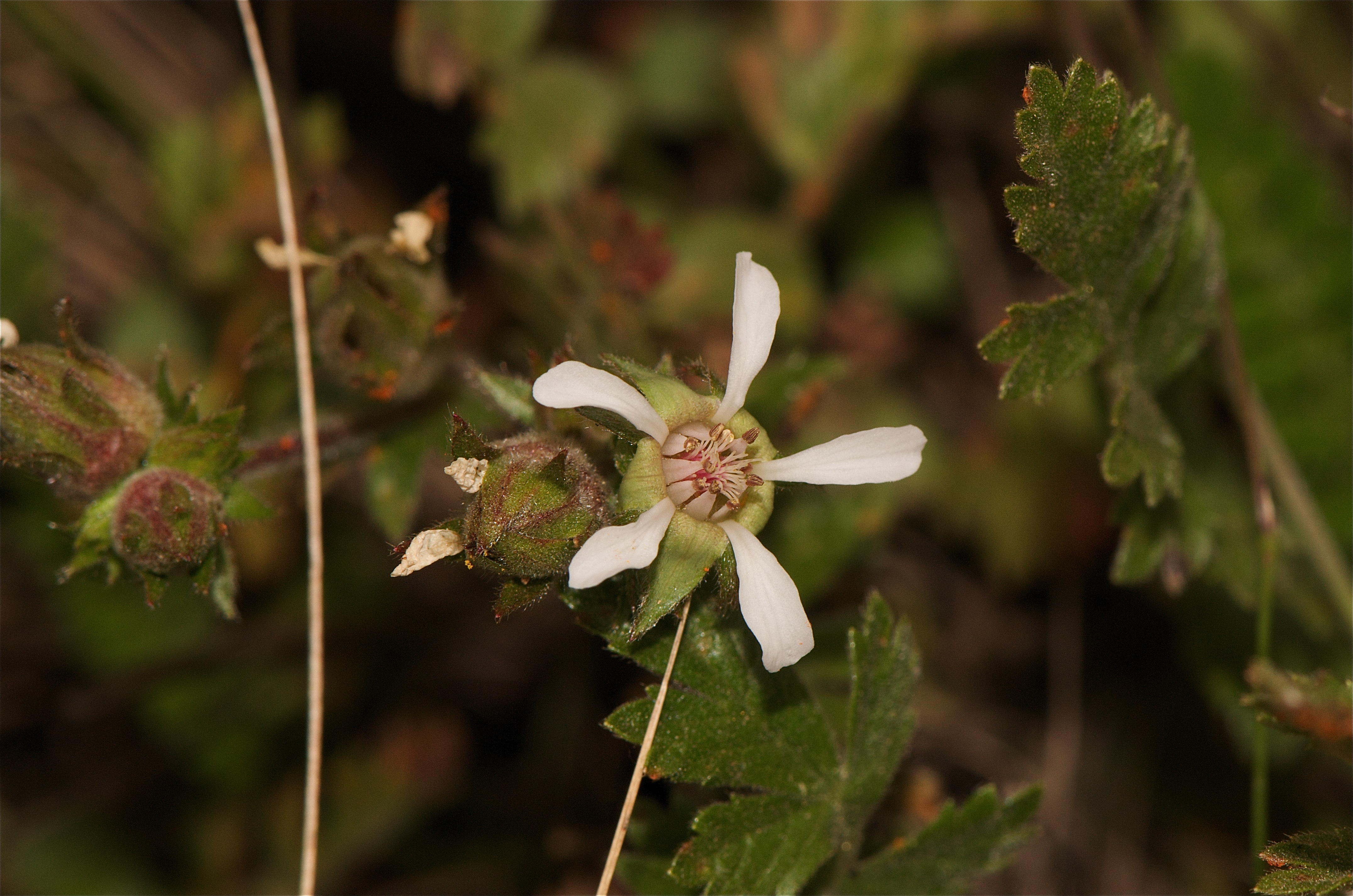 Horkelia cuneata